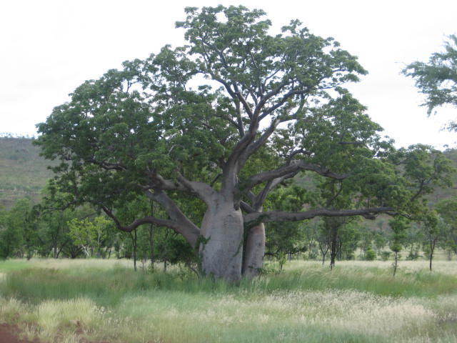 Boab tree in February, Kimberley region, Western Australia Taken by User:hamiltonstone, February 2007 For Adansonia gibbosa